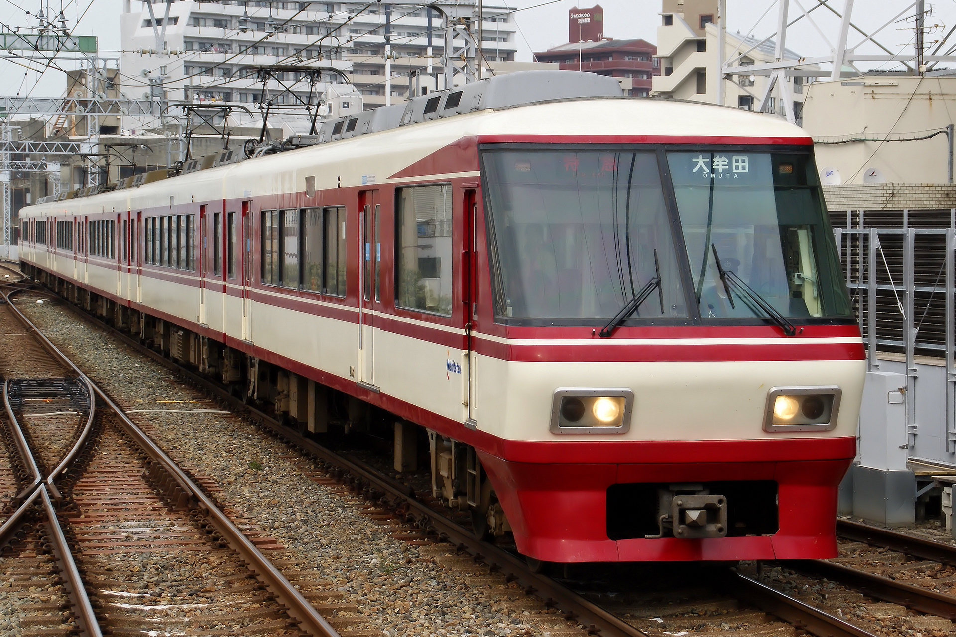 Nishi-Nippon Railroad, Series 8000. Taken at Nishitetu-Kurume Station(Kurume City, Fukuoka Prefecture, Japan)